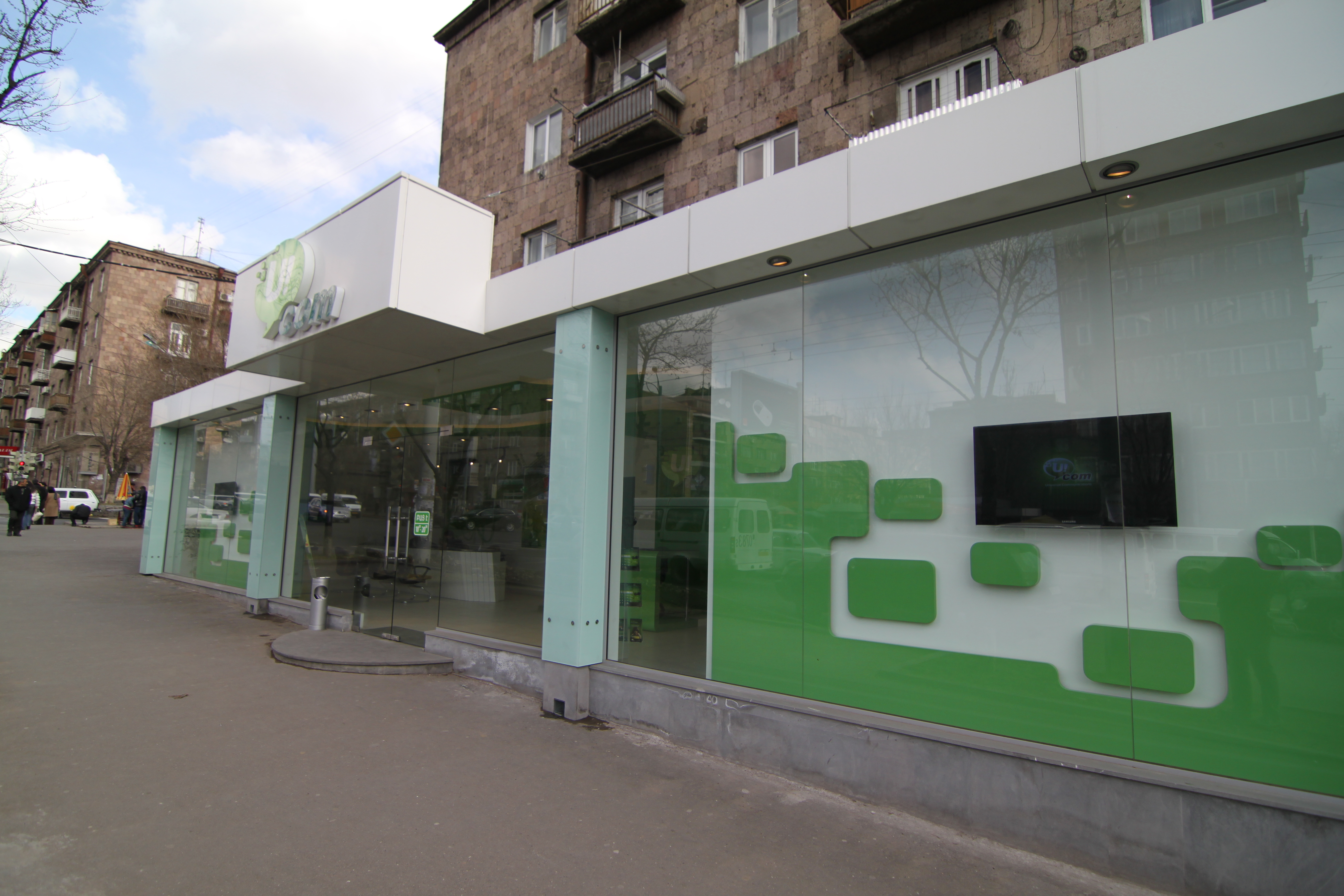 A Ucom service center on Komitas Street in Yerevan's Arabkir district. Ucom is the first to provide Fiber to the Home service in Armenia.